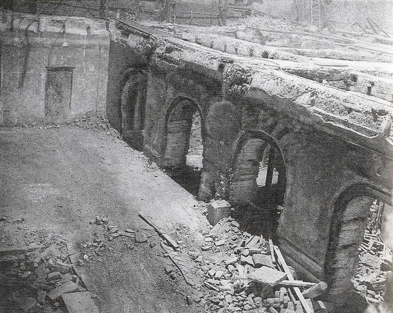 Peter I's Winter House. Fragment of the court-yard gallery 1724. Restored in 1987